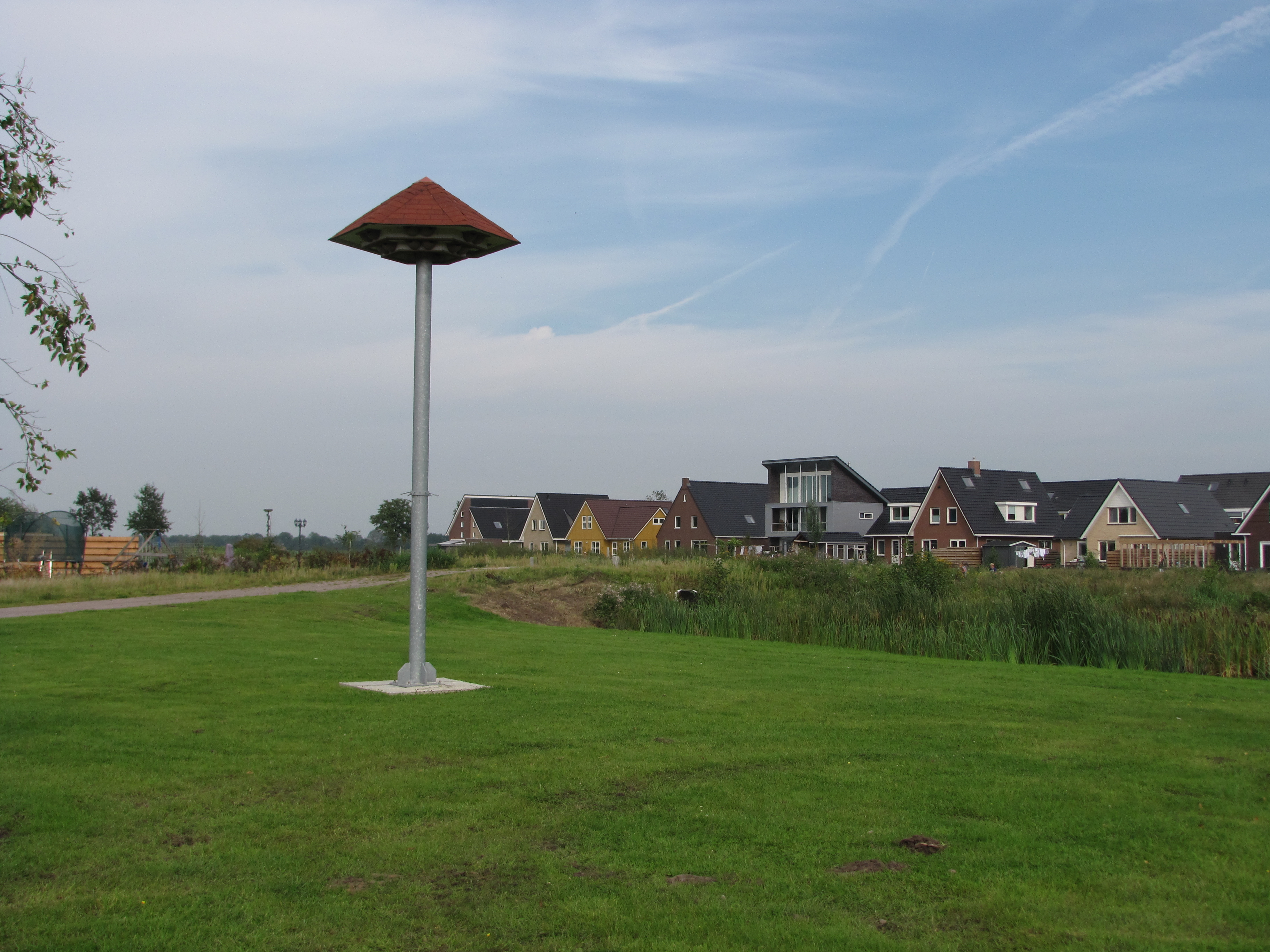 Town of Joure, Wyldehoarne. Nest box for swallows.